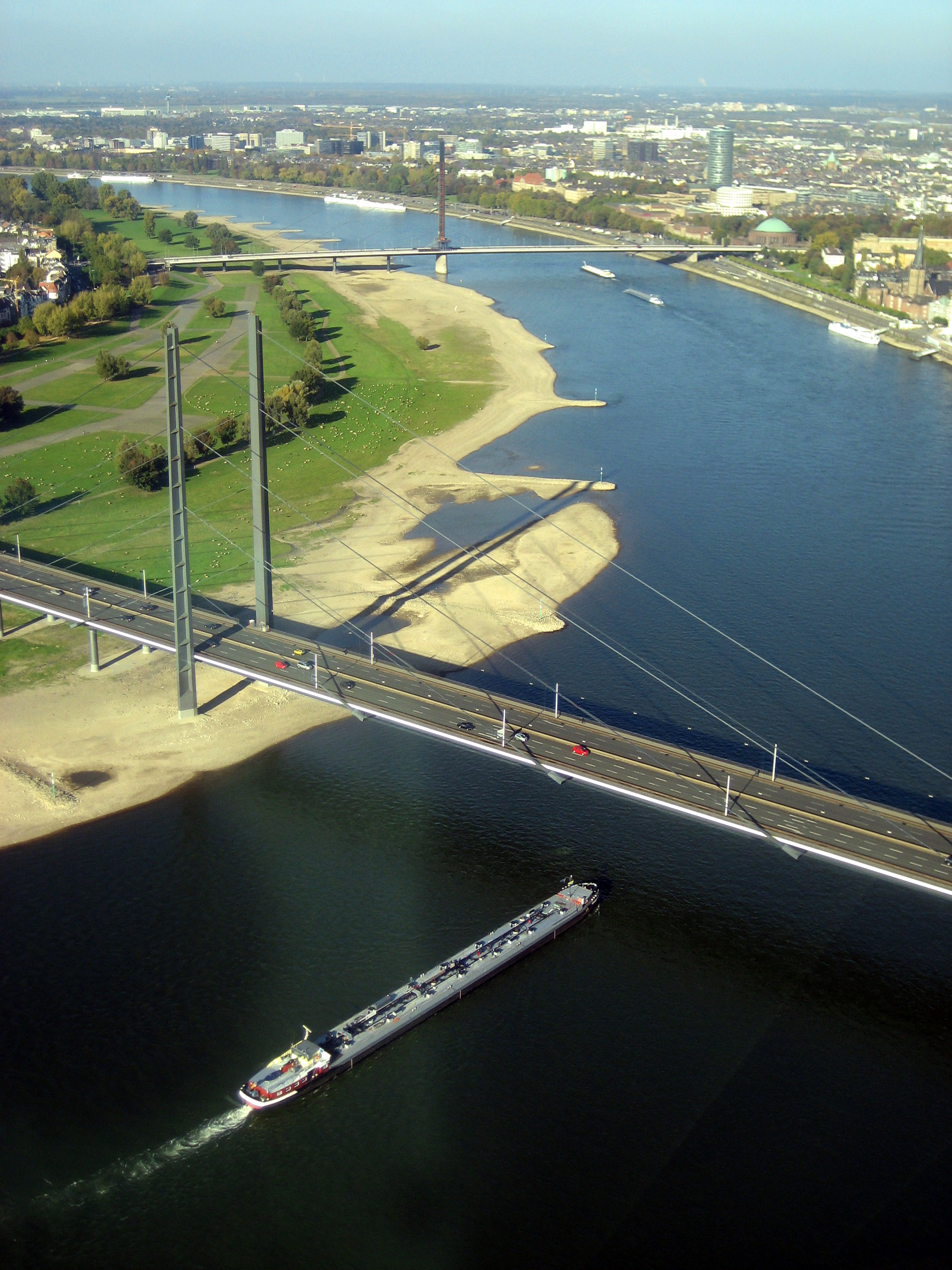 View from Rheintower, Düsseldorf